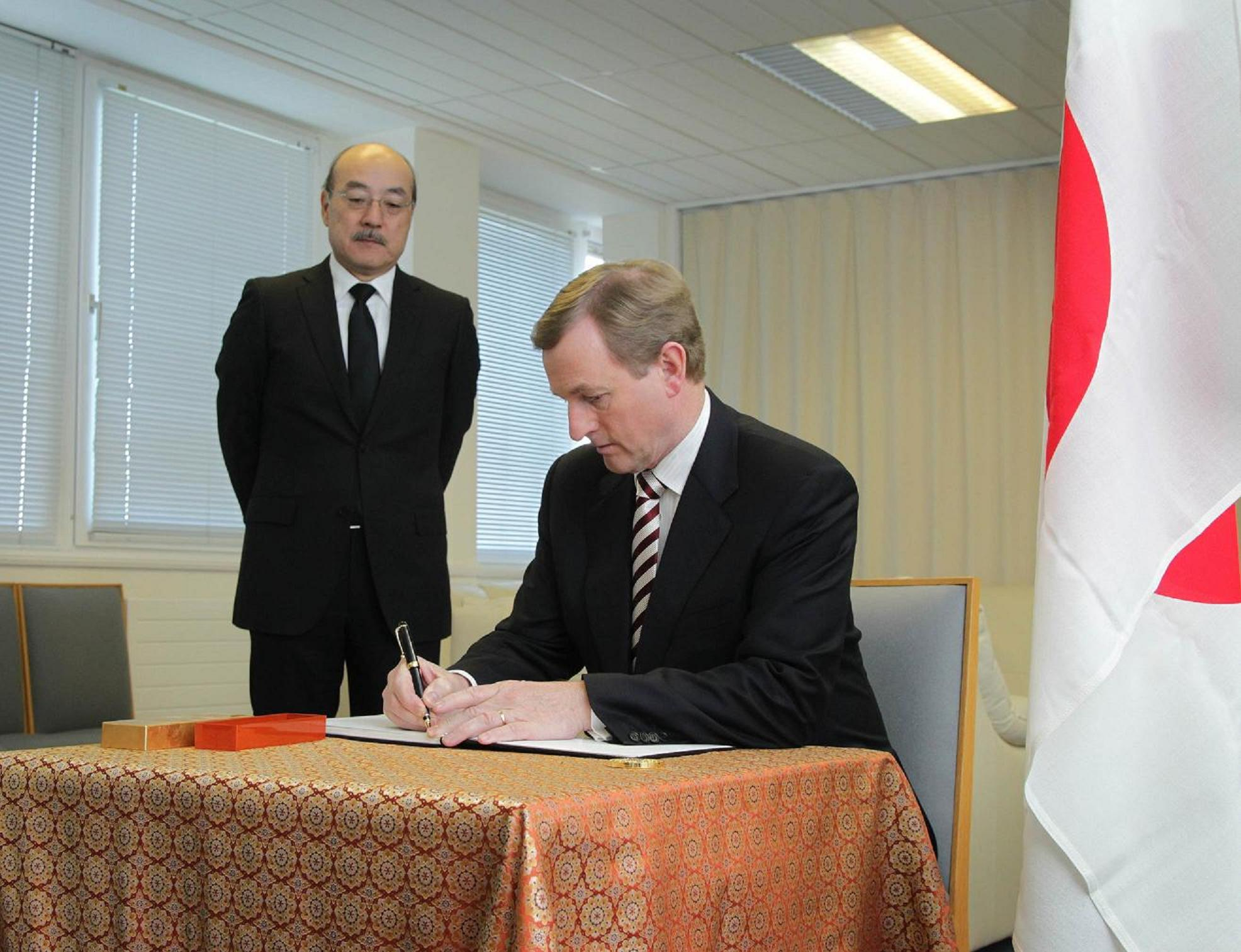 Enda Kenny, Taoiseach, visited the Embassy of Japan in Dublin, to sign a book of condolence for the victims of the Tōhoku earthquake and tsunami on March 22, 2011. Kenny met with Toshinao Urabe, Ambassador to Ireland.(c.f. "アイルランドからの緊急資金支援", 外務省: アイルランドからの緊急資金支援, Ministry of Foreign Affairs of Japan, March 23, 2011.)(c.f. "アイルランド", 外務省: 「がんばれ日本！ 世界は日本と共にある」（世界各地でのエピソード集）: 欧州（西欧その1）, Ministry of Foreign Affairs of Japan.)